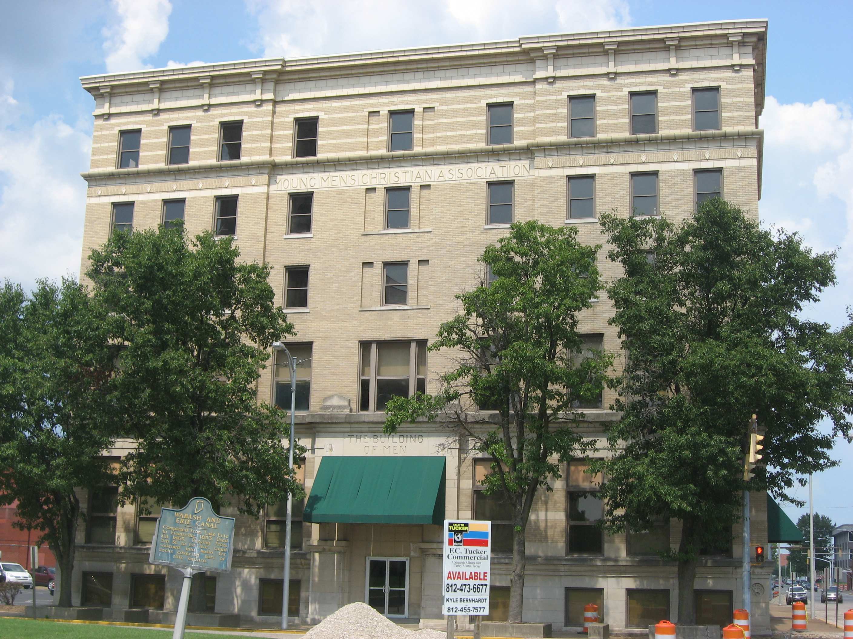 Front of the Evansville YMCA, located at 203 NW. Fifth Street in Evansville, Indiana, United States. Built in 1924, it is listed on the National Register of Historic Places.